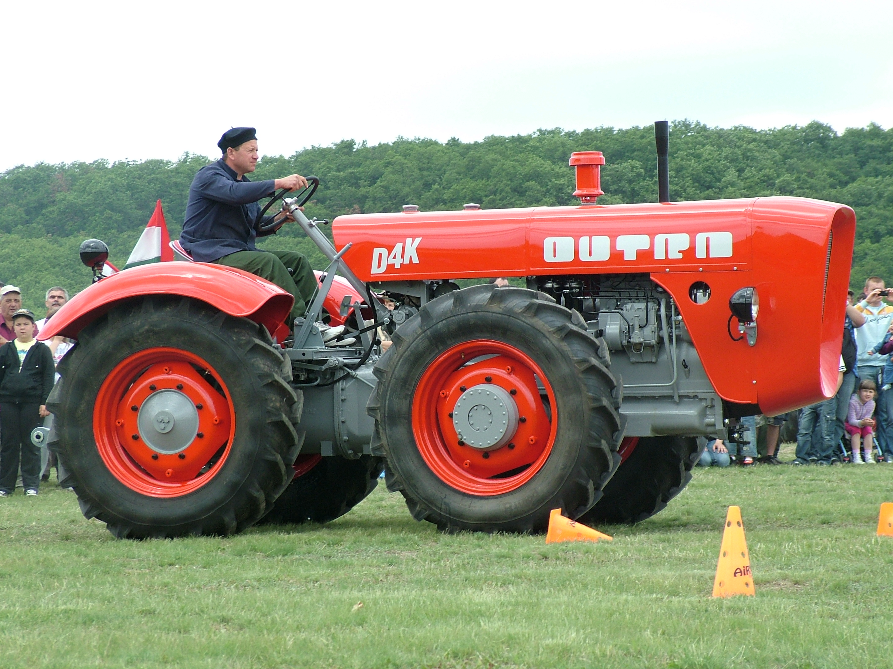 Dutra D4K at Traktormajális 2012.